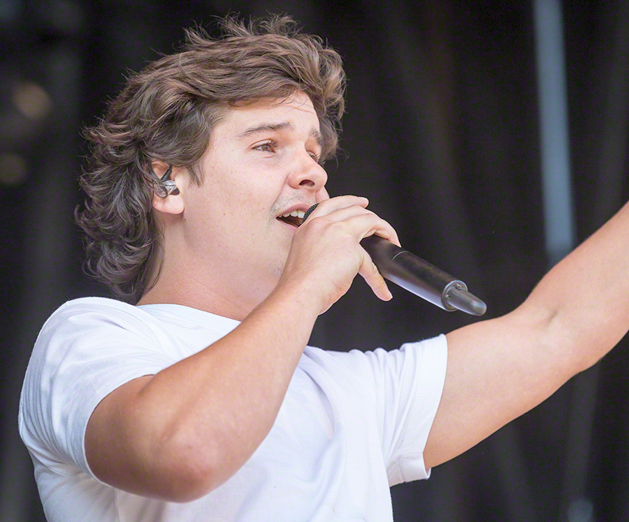 Lukas Graham at the minor stage during Stavernfestivalen in Stavern on 09. July 2016. Lineup:Lukas Graham (vocal)Unidentified (drums)Unidentified (bass)Unidentified (keyboard)Unidentified (trombone)Unidentified (baritone saxophone)Unidentified (trumpet)